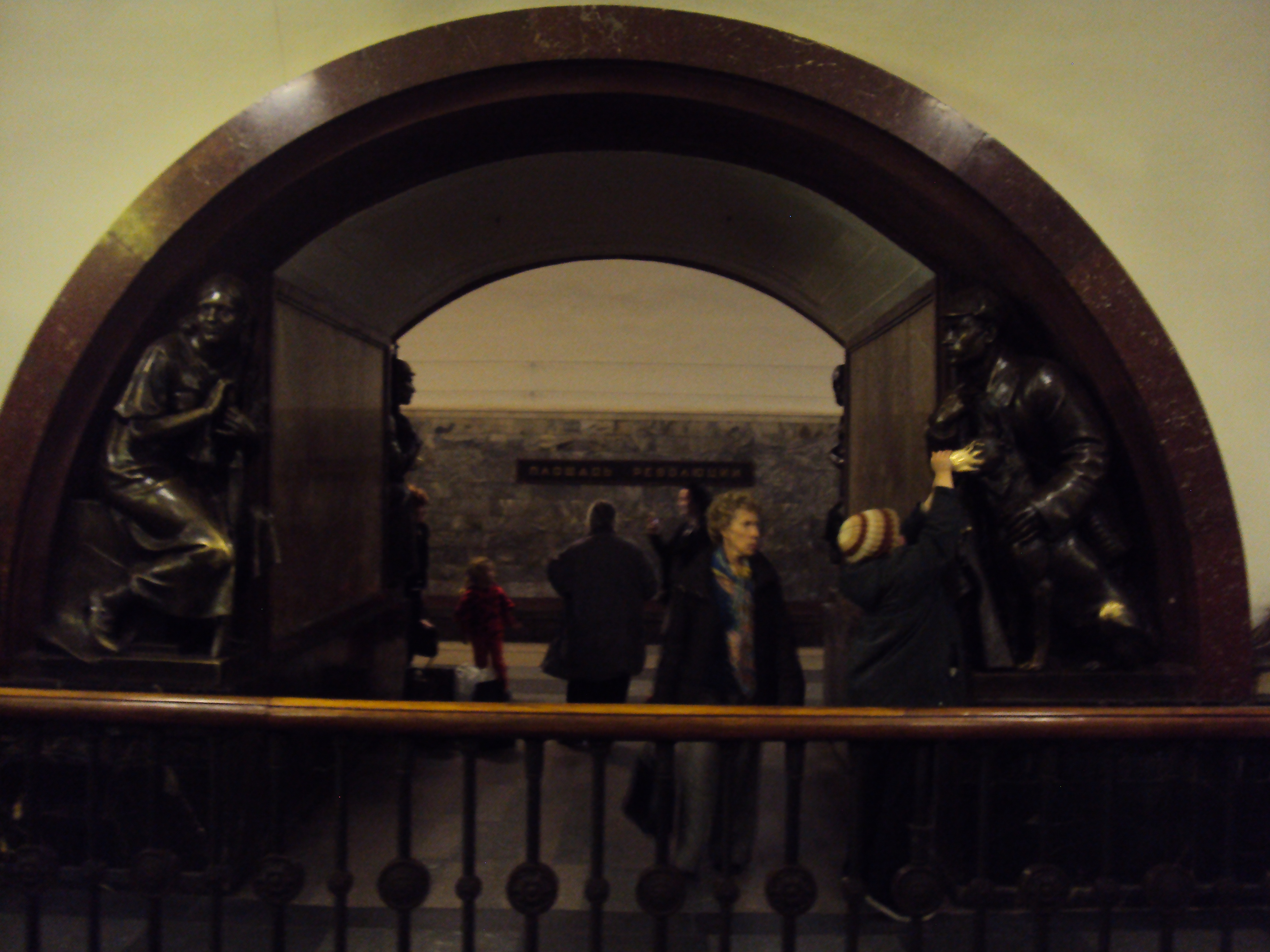 The Moscow metro station Ploshchad Revolyutsii